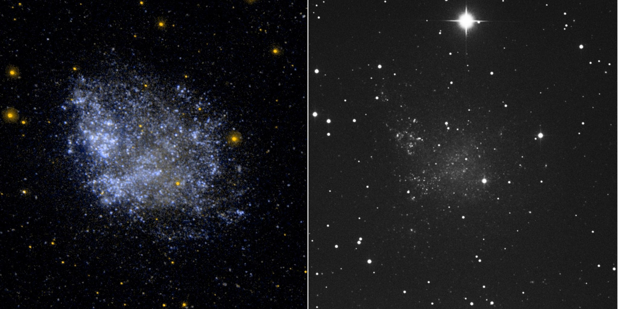 Ultraviolet image (left) and visual image (right) of the irregular dwarf galaxy IC 1613. Low surface brightness galaxies, such as IC 1613, are more easily detected in the ultraviolet because of the low background levels compared to visual wavelengths.